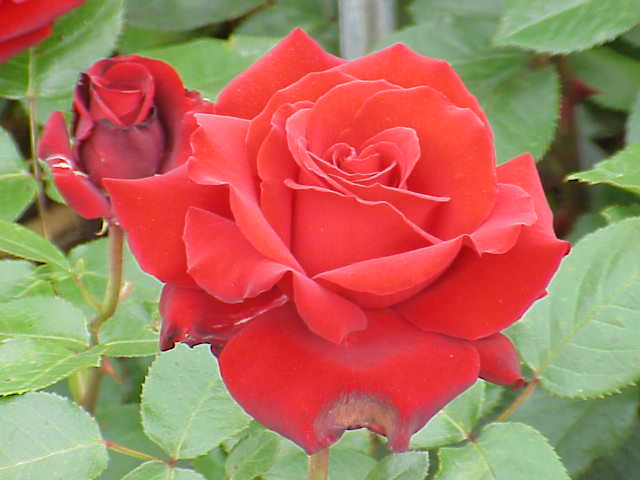 Species: Rosa sp. Family: Rosaceae Cultivar: Ingrid Bergmann, Poulsen Image No. 148